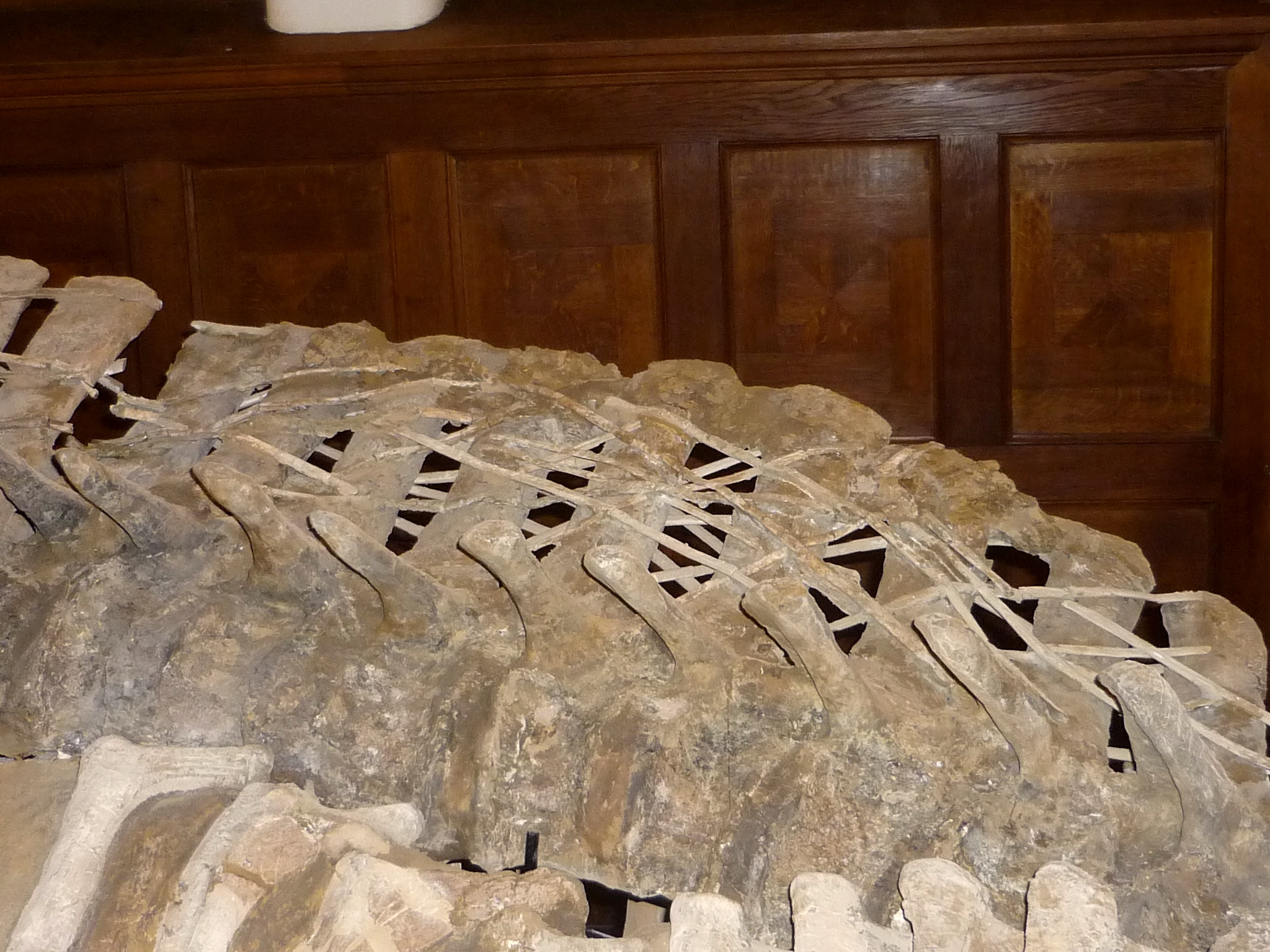 Vertebras and tendons of Prosaurolophus maximus, Institut de paléontologie humaine, Paris, France